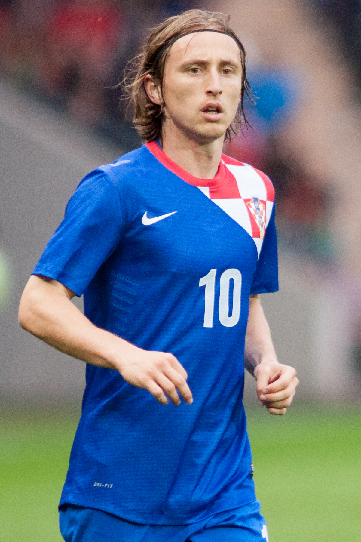 Croatia vs. Portugal, 10th June 2013